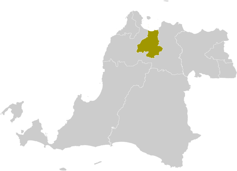 Locator map of Serang Municipality